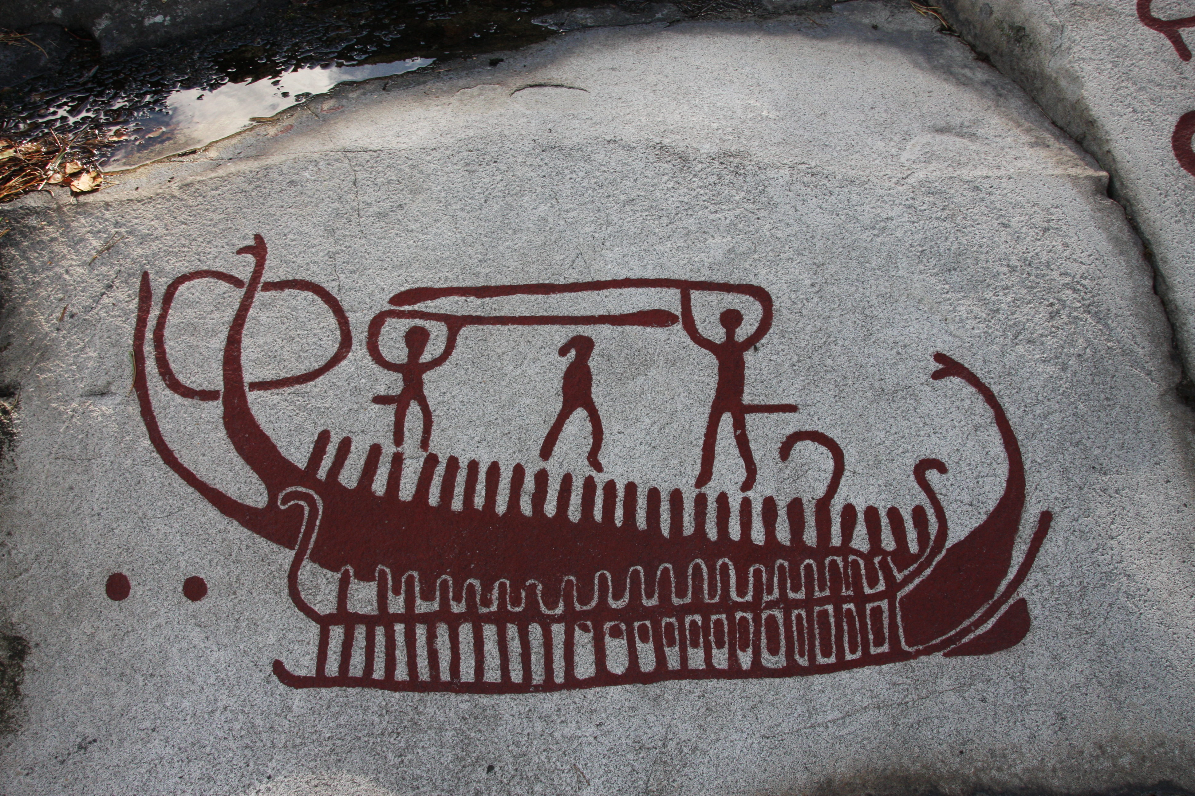 Hällristning på Massleberg gård i Skee socken, Strömstads kommun i Bohuslen.